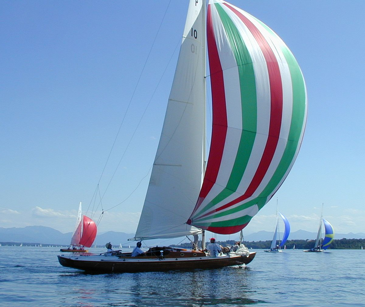 German National Cruiser Sailboat